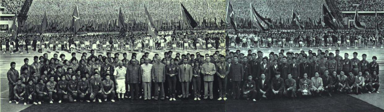 1965-12 1965年全运会4